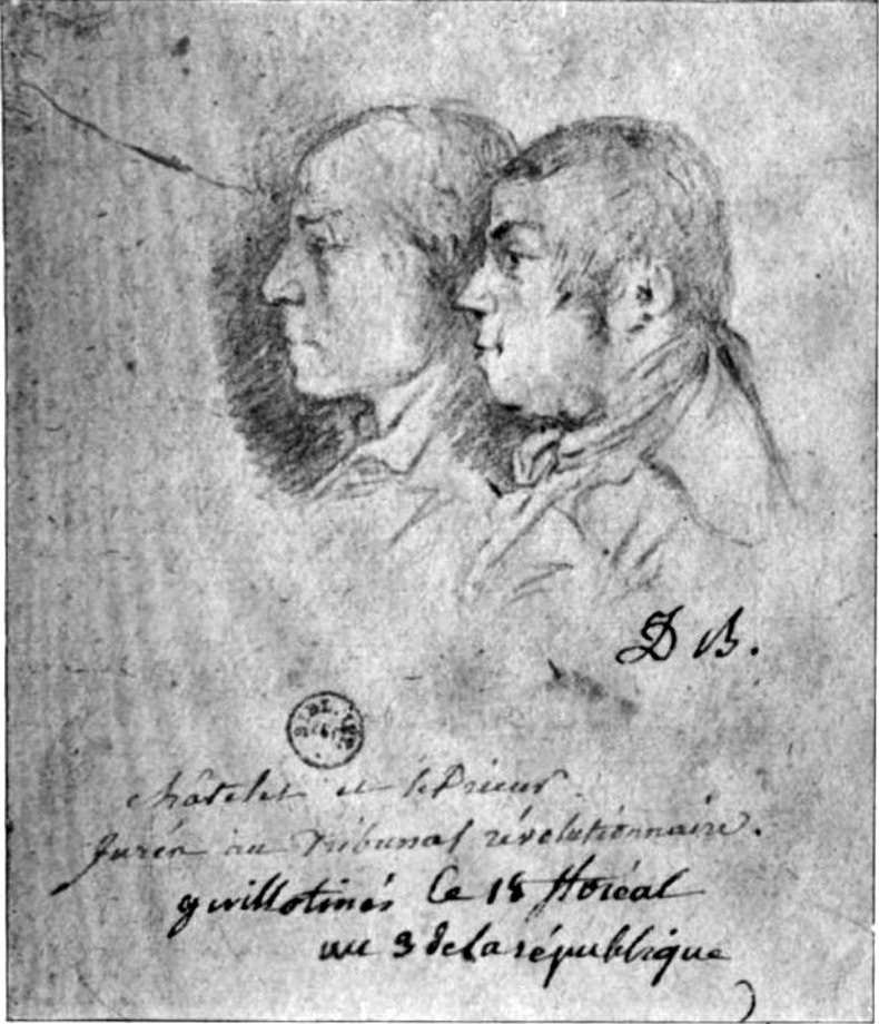 Châtelet and Le Prieur, jury members of the Revolutionary Tribunal